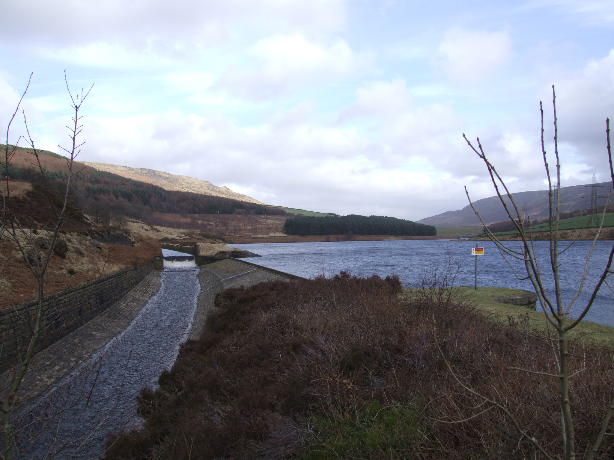 Longdendale in Derbyshire is the valley of the River Etherow. The Longdendale Chain is a series of reservoirs built to provide drinking water forManchester At the Rhodeswood Reservoir dam, we see the outflow canal from the Torside Reservoir dam. The dam be seen in the distance. To the right is Shining Clough Moss and Bleaklow. To the left Bareholm Moss, - OpenStreetMap(Info)